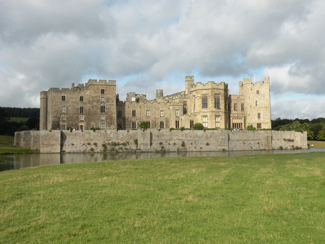 Raby Castle